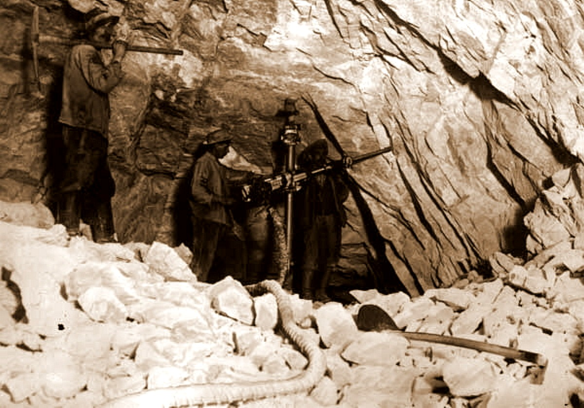 Lötschberg rail Tunnel